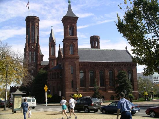 The "castle" at the Smithsonian Institution, taken in 2003 by me.